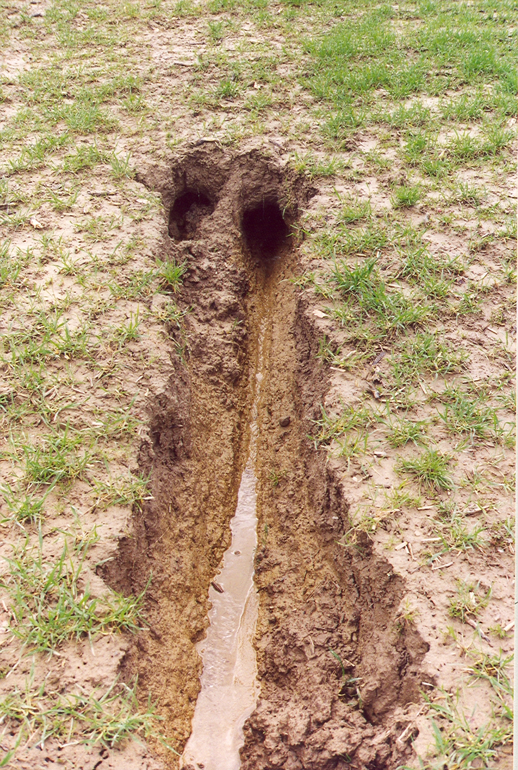 Erosion caused by particular causes, canton of Bern, Switzerland